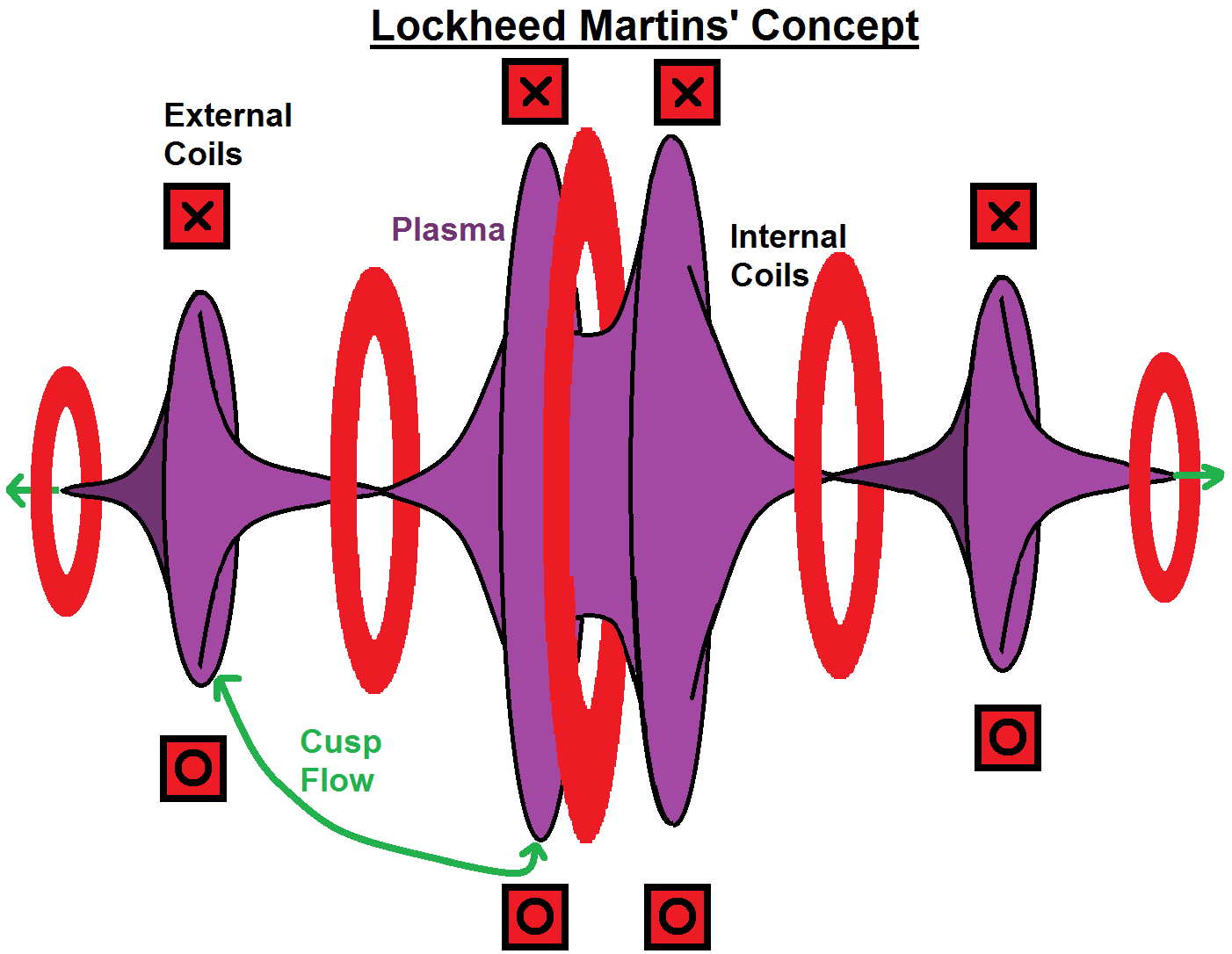 This is a sketch of the plasma geometry and magnetic coils inside Lockheed Martins' compact fusion reactor. It is taken from: McGuire, Thomas. "The Lockheed Martin Compact Fusion Reactor." Thursday Colloquium. Princeton University, Princeton. 6 Aug. 2015. Lecture. It is not an exact copy. The design attempts to reduce plasma losses inside sharply bent fields. The cusp geometry attempts to reduce the area where plasma will leak out by limiting loss through the edges and axis of the cusps. The design also attempts to reflux loss from edges to other cusps. Other information This is a sketch of the plasma geometry and magnetic coils inside Lockheed Martins' compact fusion reactor. It is taken from: McGuire, Thomas. "The Lockheed Martin Compact Fusion Reactor." Thursday Colloquium. Princeton University, Princeton. 6 Aug. 2015. Lecture. It is not an exact copy. The design attempts to reduce plasma losses inside sharply bent fields. The cusp geometry attempts to reduce the area where plasma will leak out by limiting loss through the edges and axis of the cusps. The design also attempts to reflux loss from edges to other cusps.